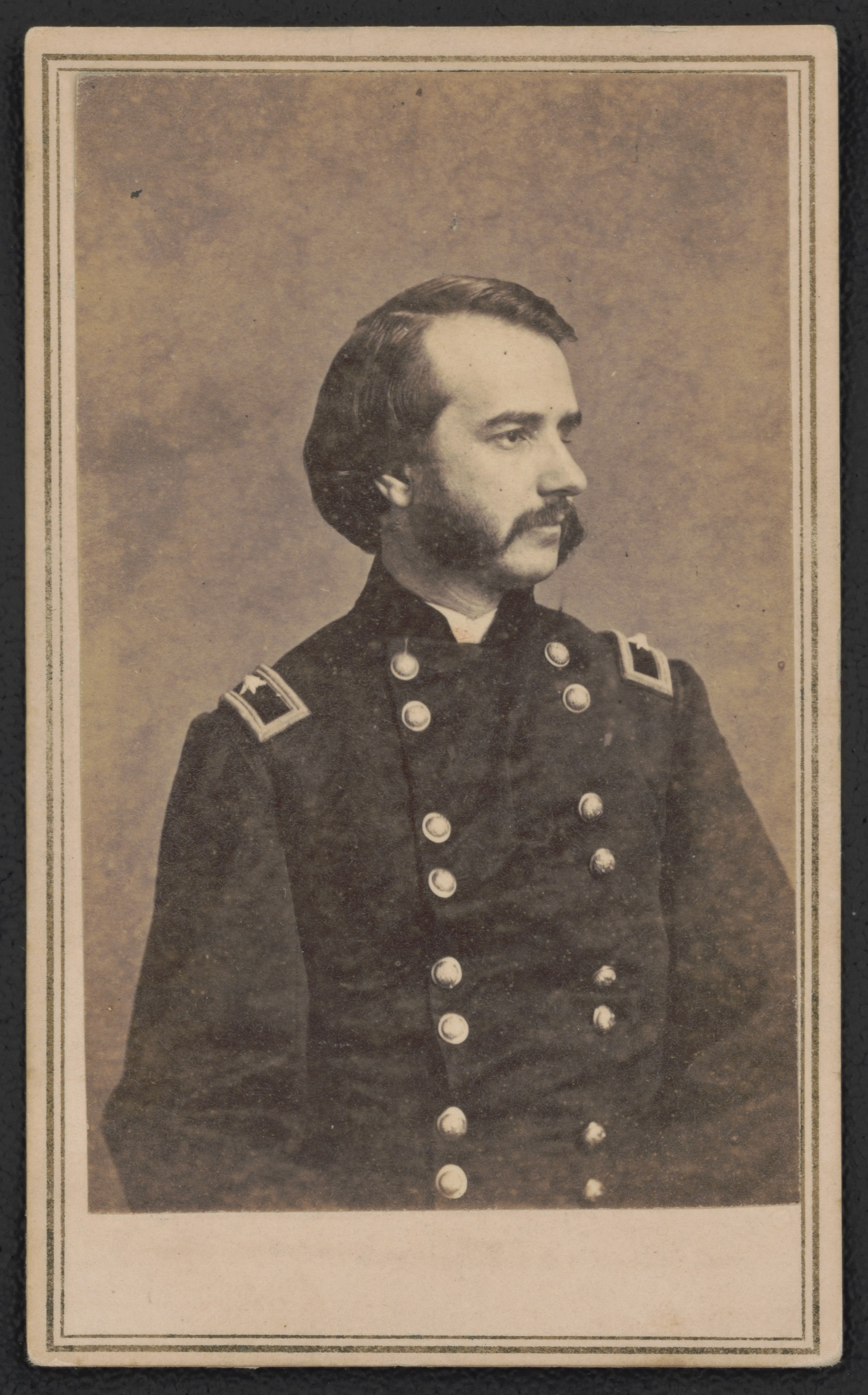 Title: Major General John Franklin Miller of 29th Indiana Infantry Regiment and General Staff U.S. Volunteers Infantry Regiment in uniform] / From negative in Brady's National Portrait Gallery Abstract/medium: 1 photograph : albumen print on card mount ; mount 11 x 6 cm (carte de visite format)